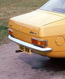 This is a derivative work that I created, based on a public domain work: I dedicate to the public all rights in this, my work. For use with British Leyland Motor Corp. v. Armstrong Patents Co. to illustrate subject matter of article.